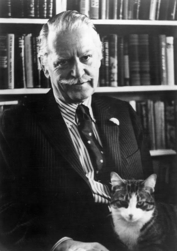 Willard R. Espy, publicity still from 1977 promoting his book The Life and Works of Mr. Anonymous (Hawthorn Books)